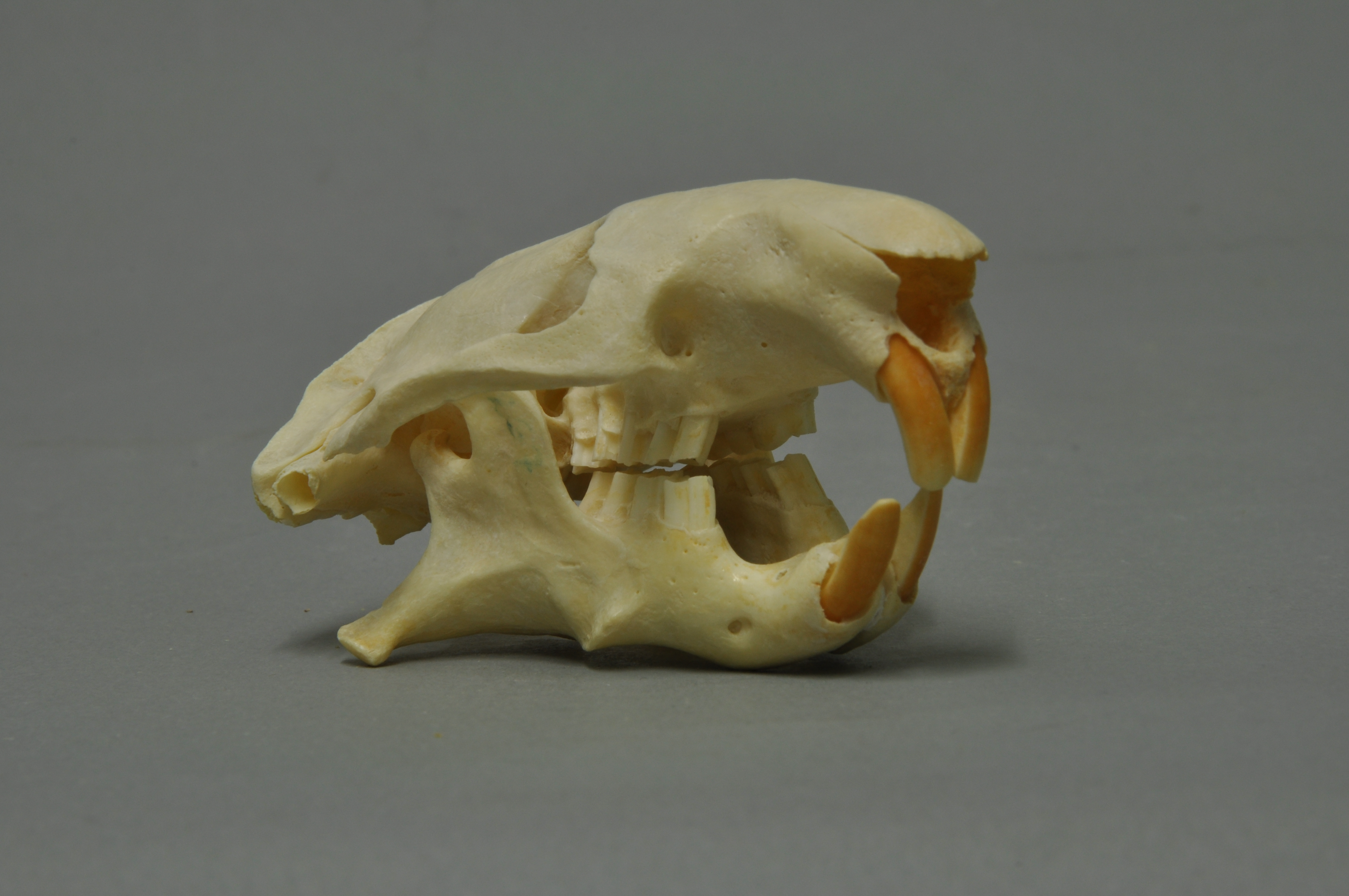 Mountain beaverAplodontia rufa , skull, Coll. Museum Wiesbaden